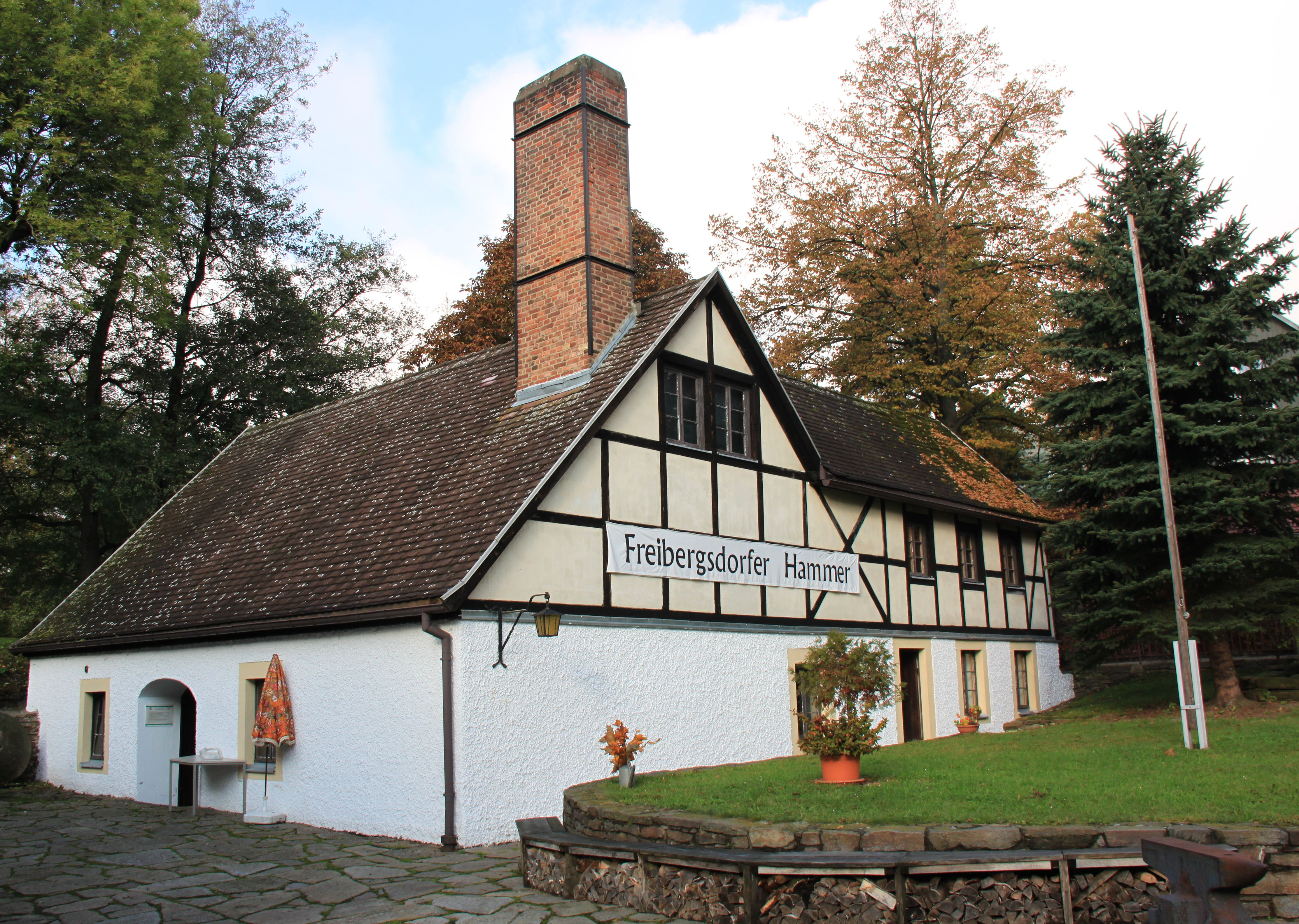 This image shows the historic ironworks in Freibergsdorf in the Erzgebirge